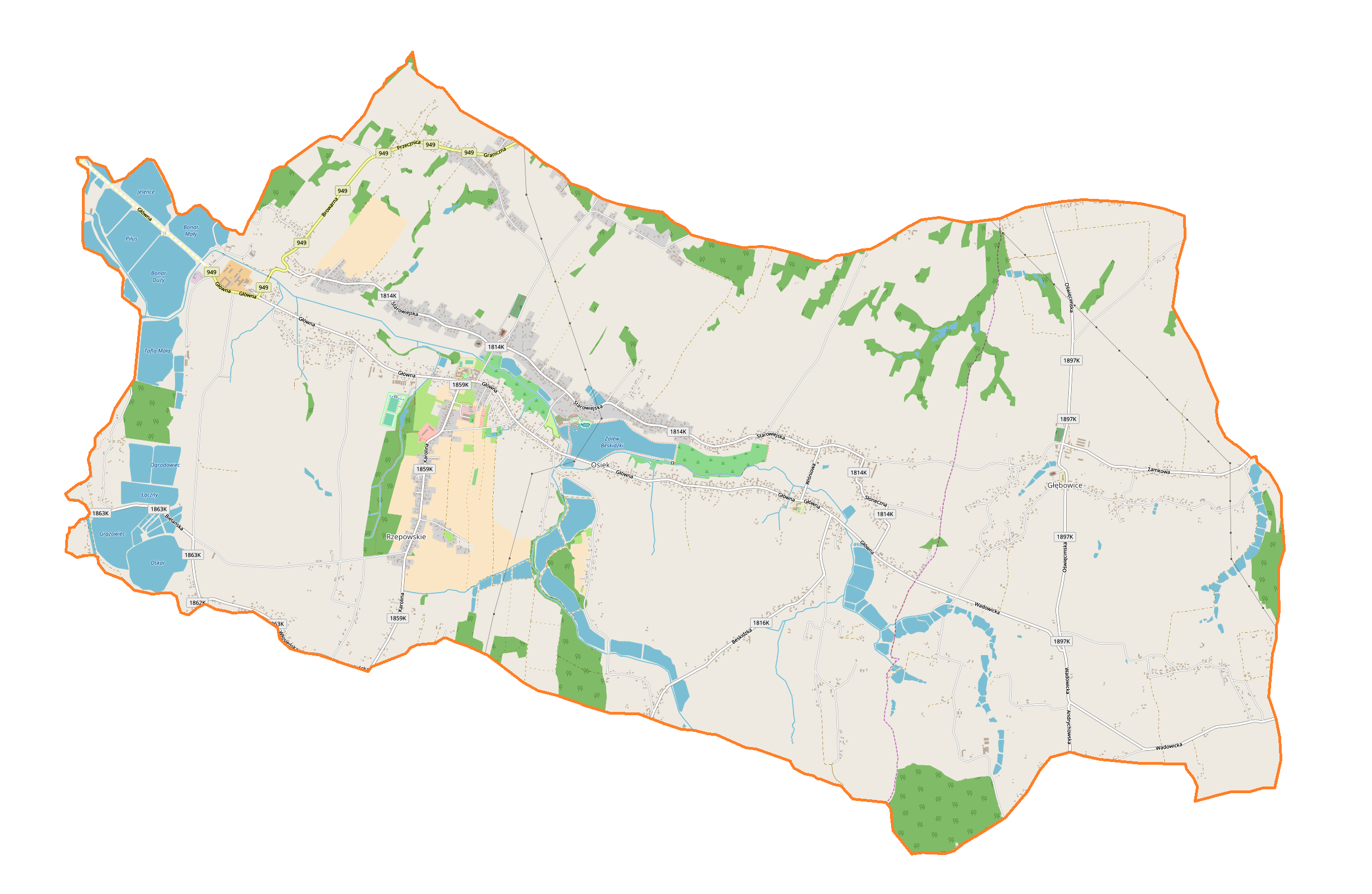 Location map